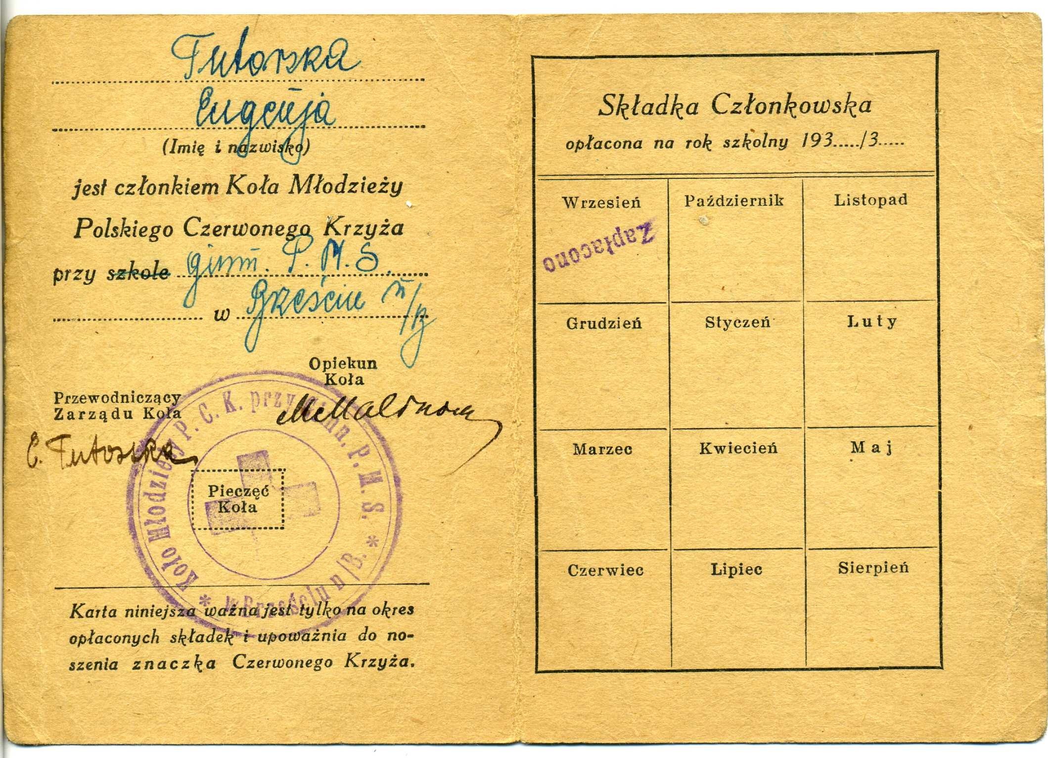 Membership card of the Polish Red Cross, issued in Brześć nad Bugiem (Brest)